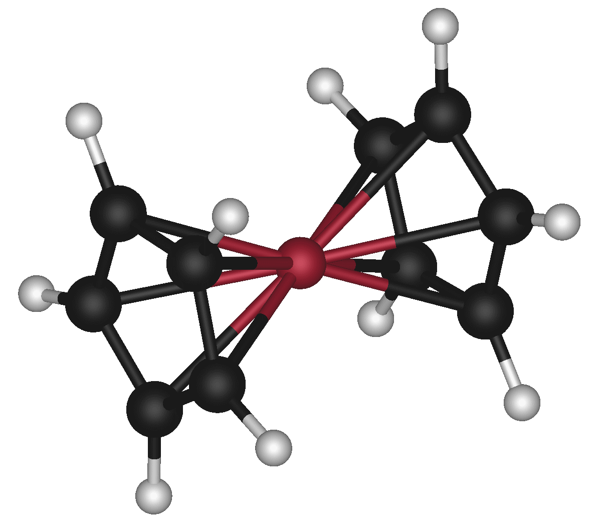 A 3D-model of a ferrocene molecule. Created by Michael Ströck on February 1, 2006. Licensed under the GFDL.